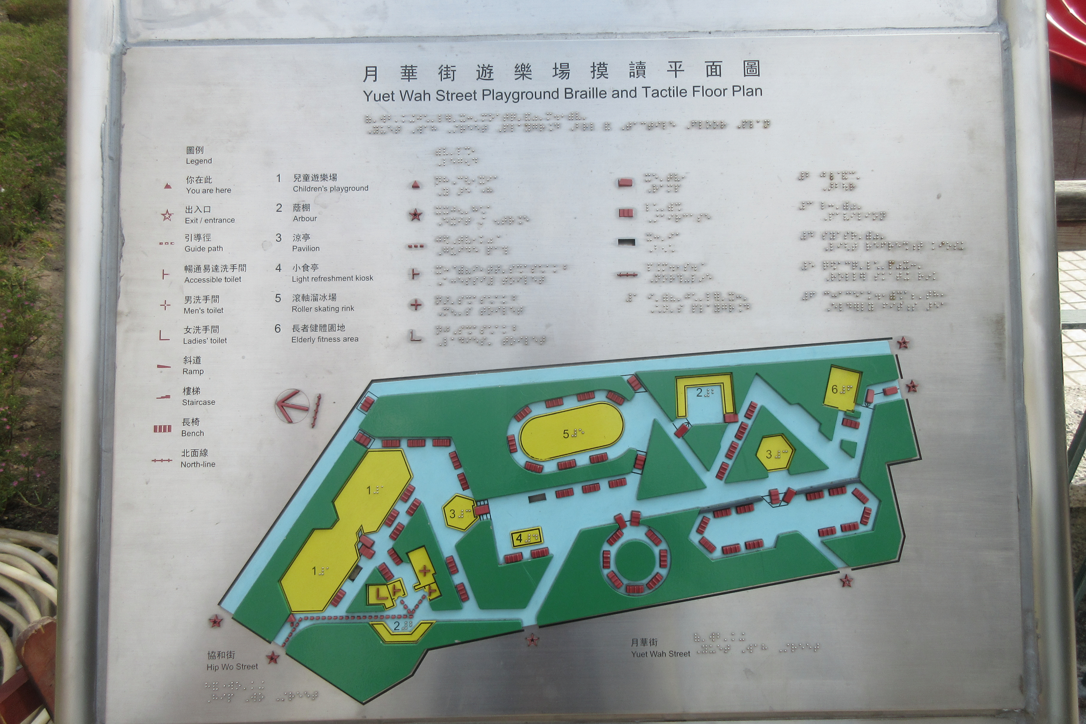 HK 觀塘 Kwun Tong 月華街 Yuet Wah Street Playground in December 2018